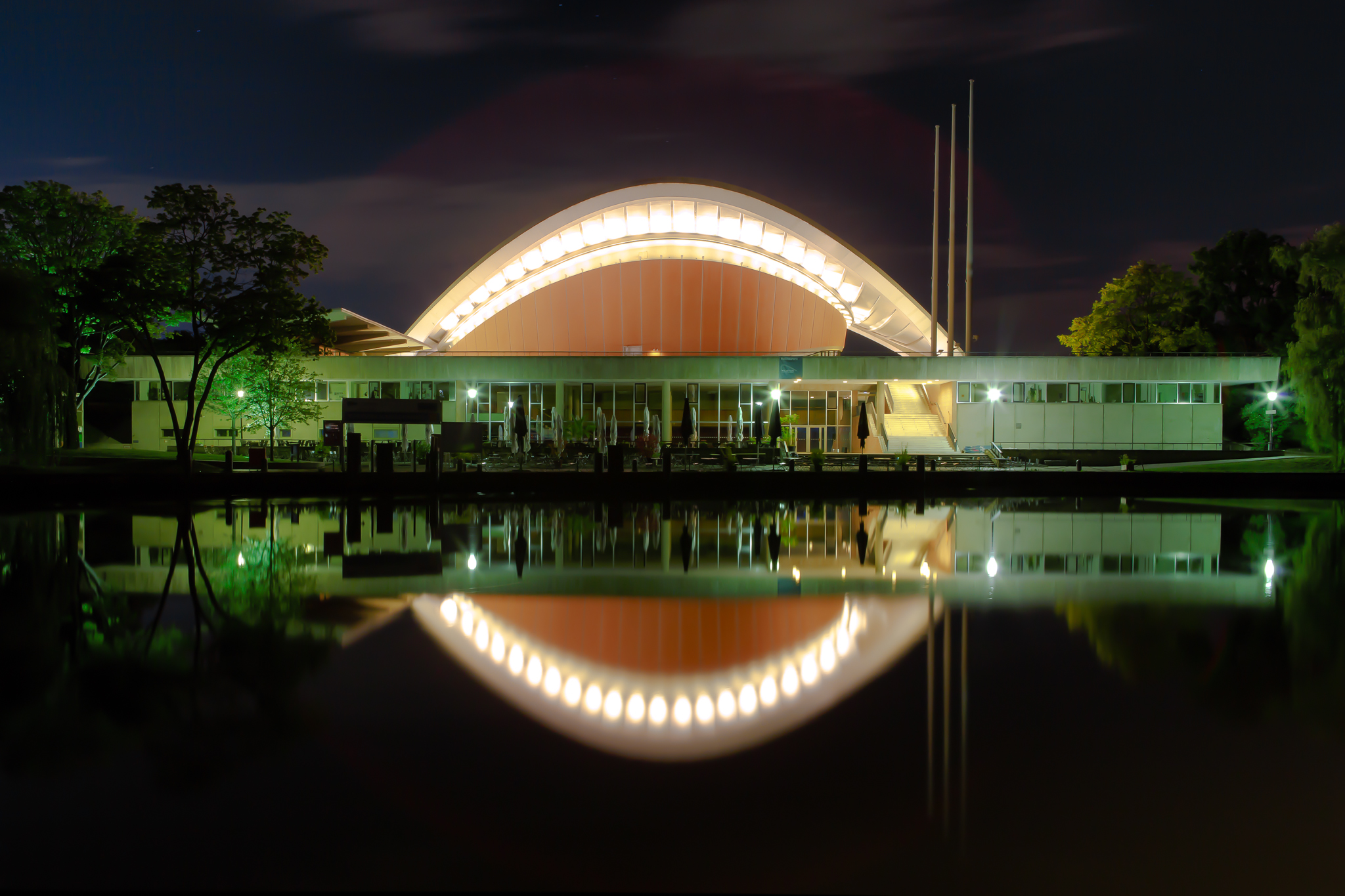 Berlin - Congress hall - House of the cultures of the world - 2013This is a photograph of an architectural monument.